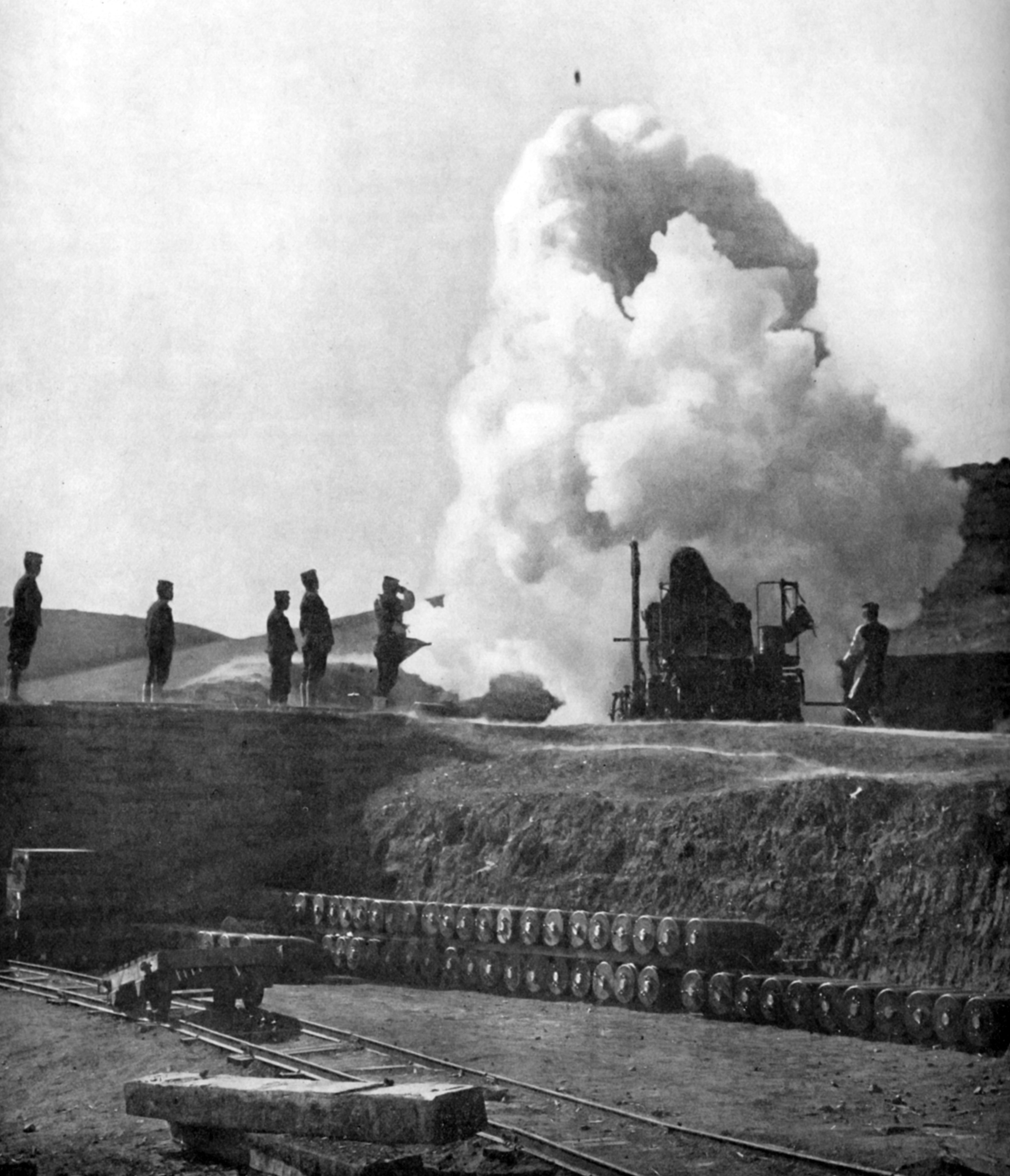 A Japanese 11 inch (275 mm) siege gun fires on Port Arthur during the Russo-Japanese war. The 500 pound (250 kg) shell can be seen in flight above the gun.